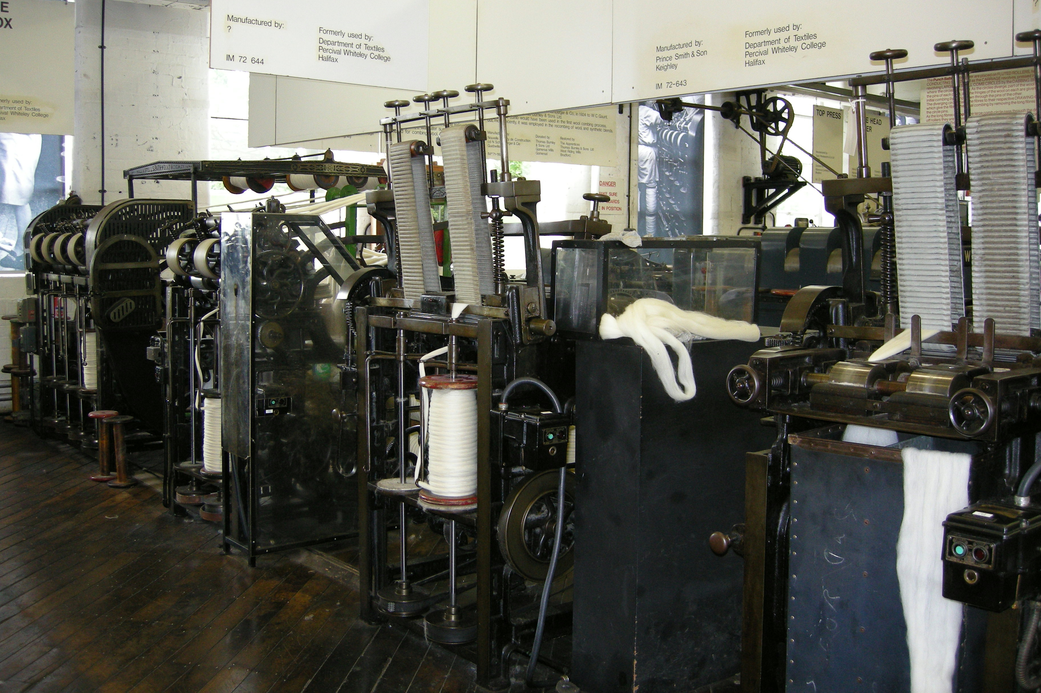 Spinning machines at Bradford Industrial Museum, Bradford, West Yorkshire, England. 53.48'.40".N; 1.43'.16".W.